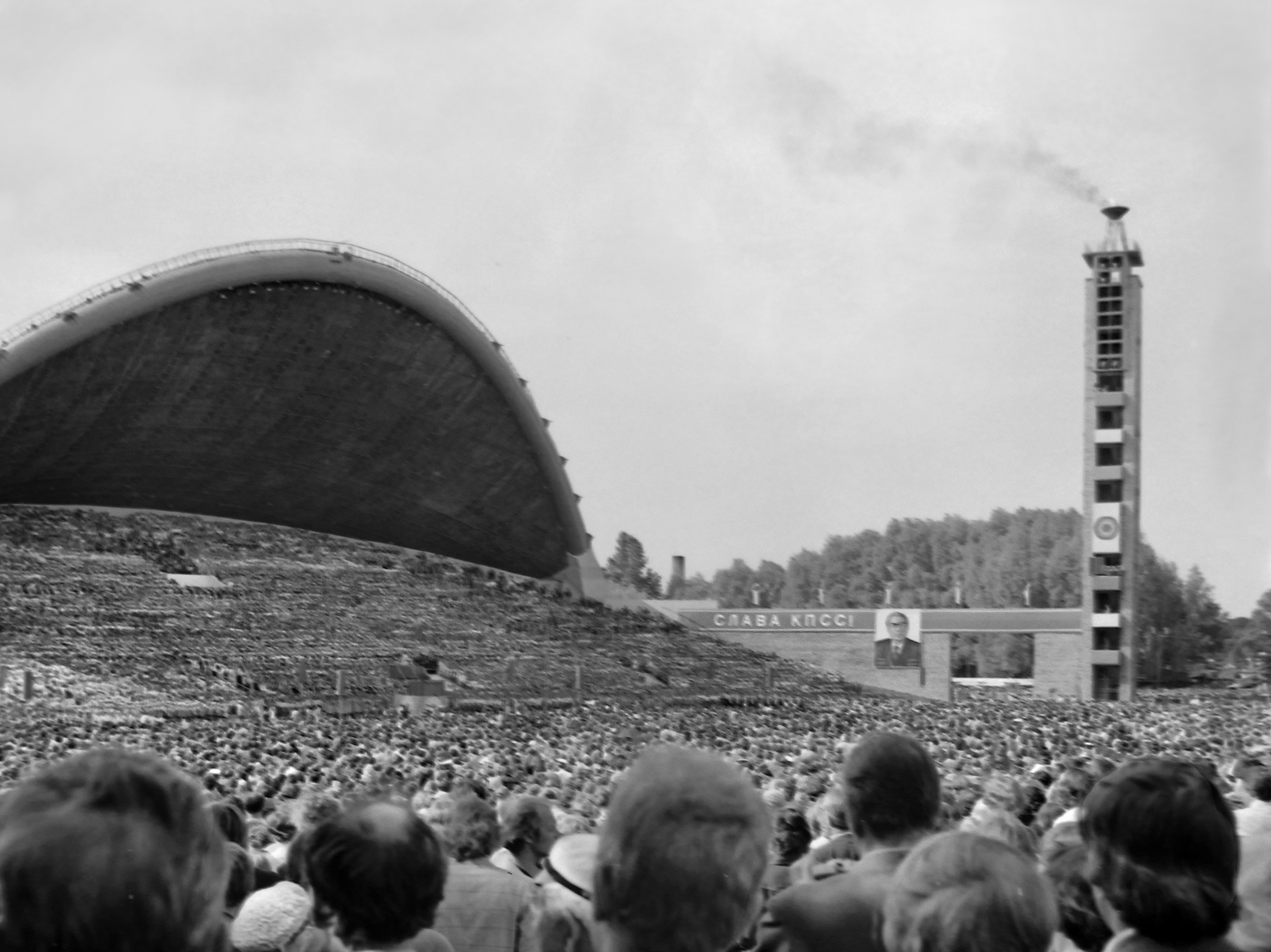 Song Celebration in Tallinn, Estonia